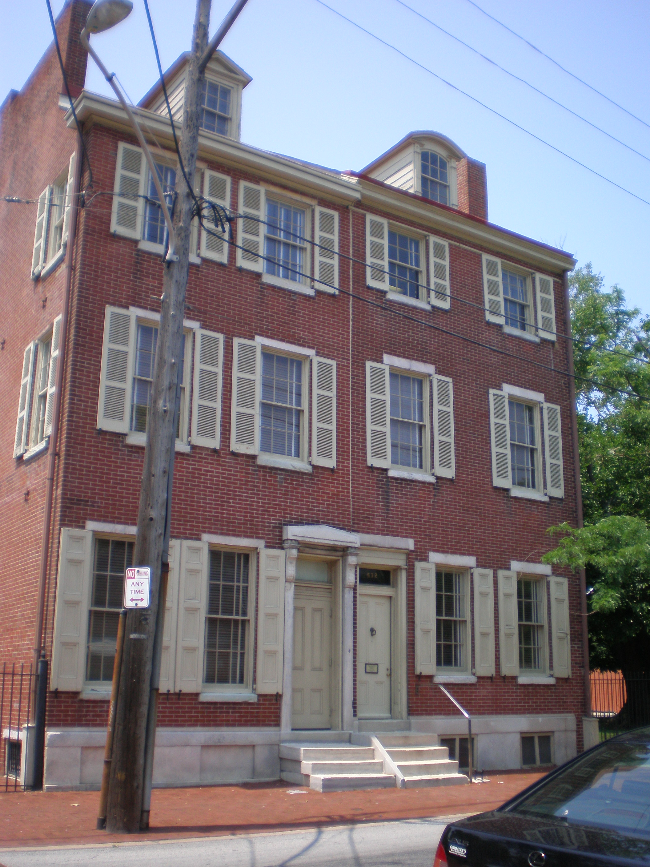 Exterior of the Poe National Historic Site, main entrance on the right. These two row homes are actually adjoining homes, not the Poe home itself.